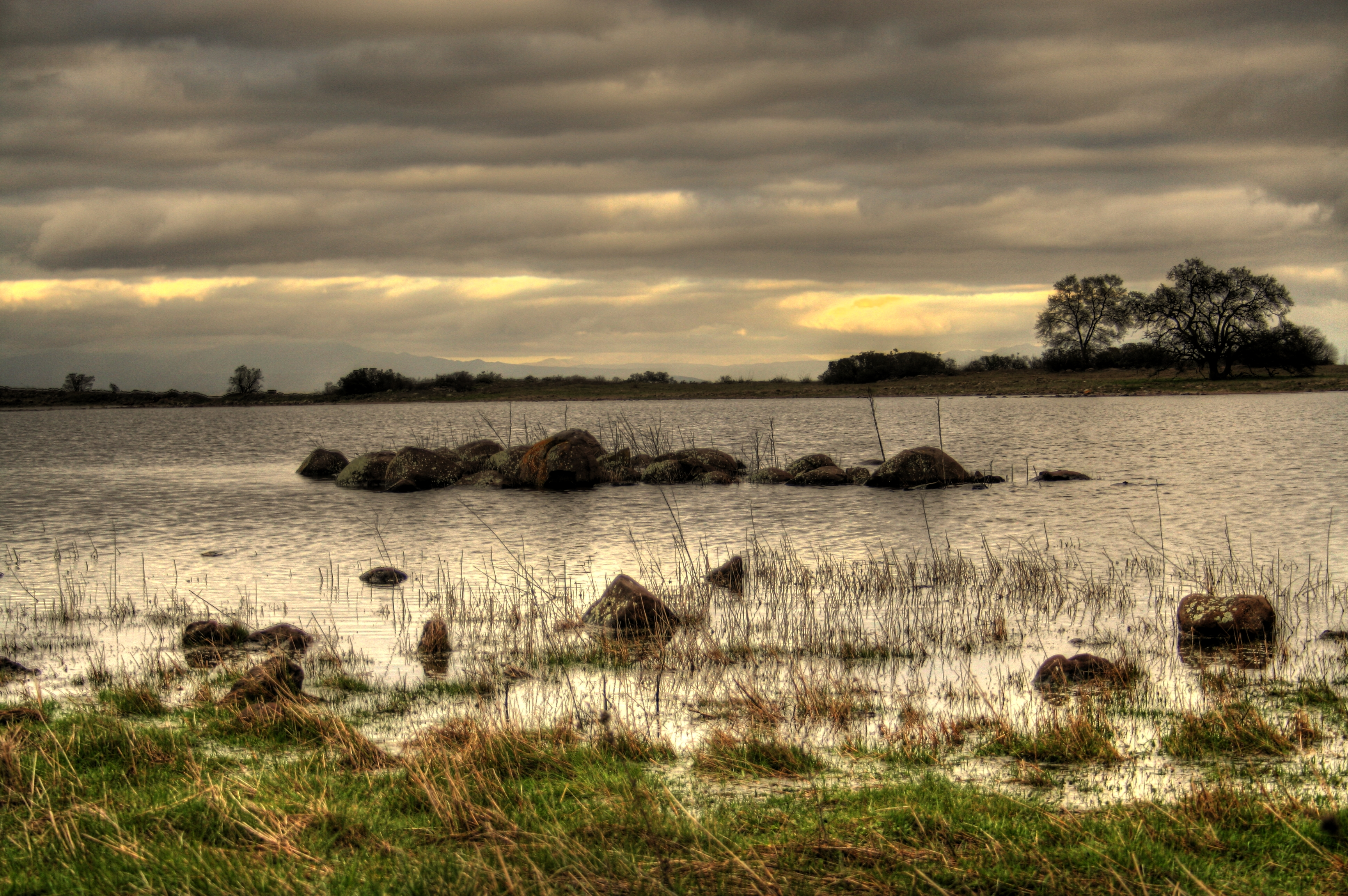 A large vernal pool at Santa Rosa Plateau. This pool is near the western-most entrance of the reserve. Picture was taken with a Canon Rebel XT with an 18-55mm Canon kit lens.